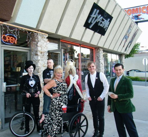 At release party for 'A Boy Born from Mold' by Lorin Morgan-Richards (L to R) Spinestealer, Bill Shafer (owner of Hyaena Gallery), Francince Dancer, Lorin Morgan-Richards, and Joseph Schneider. Burbank, California, 2010.